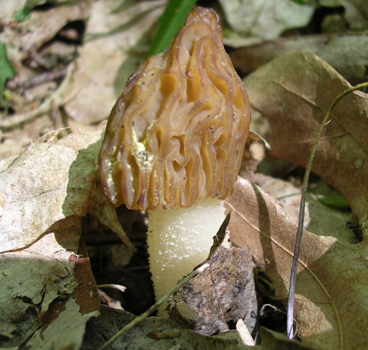 The Morton Arboretum in Lisle, Illinois.